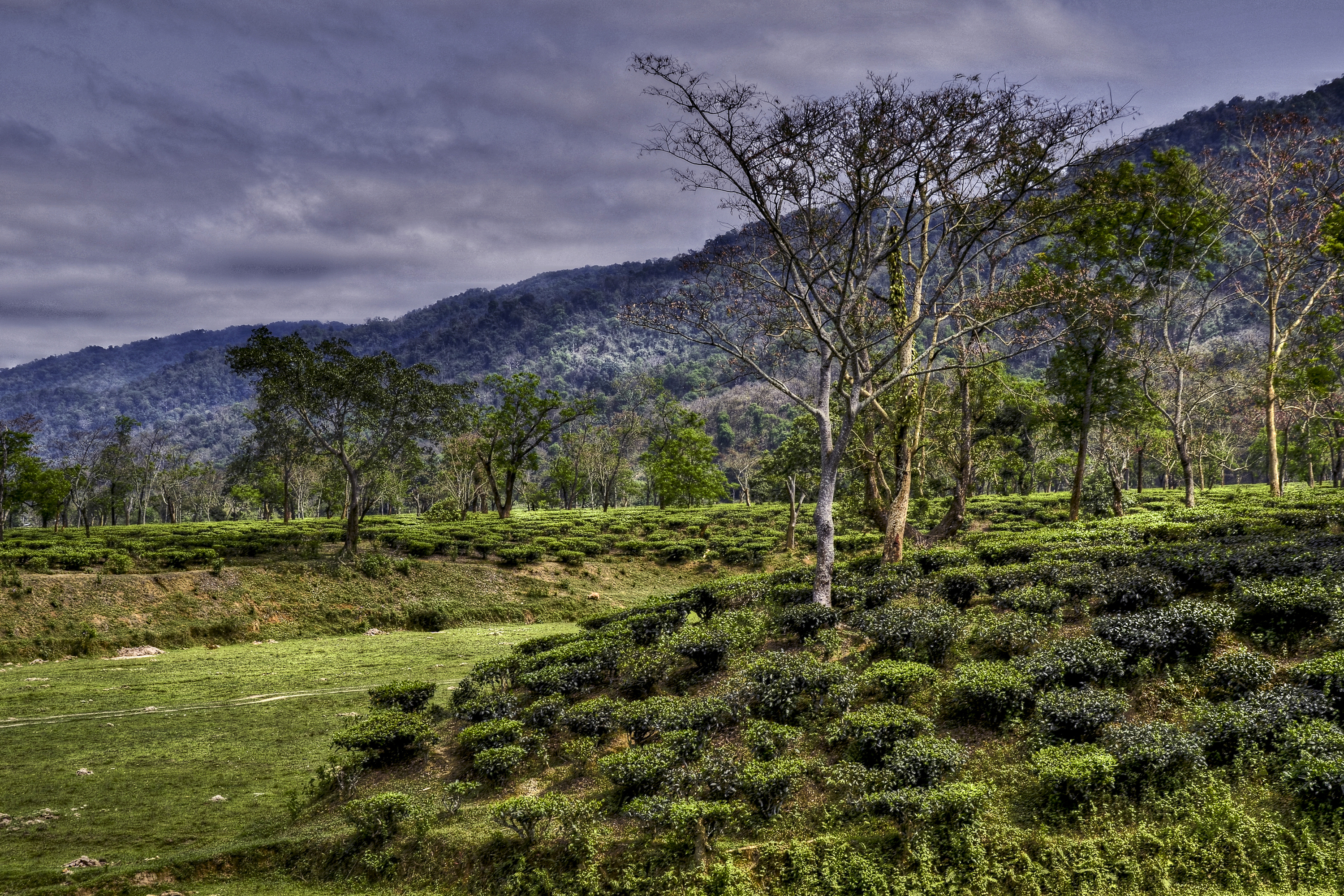 A scenic view of a tea garden in Assam, India